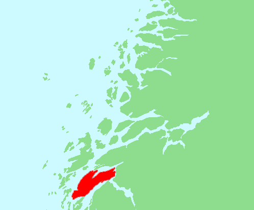 Locator map of Alsten, Norway